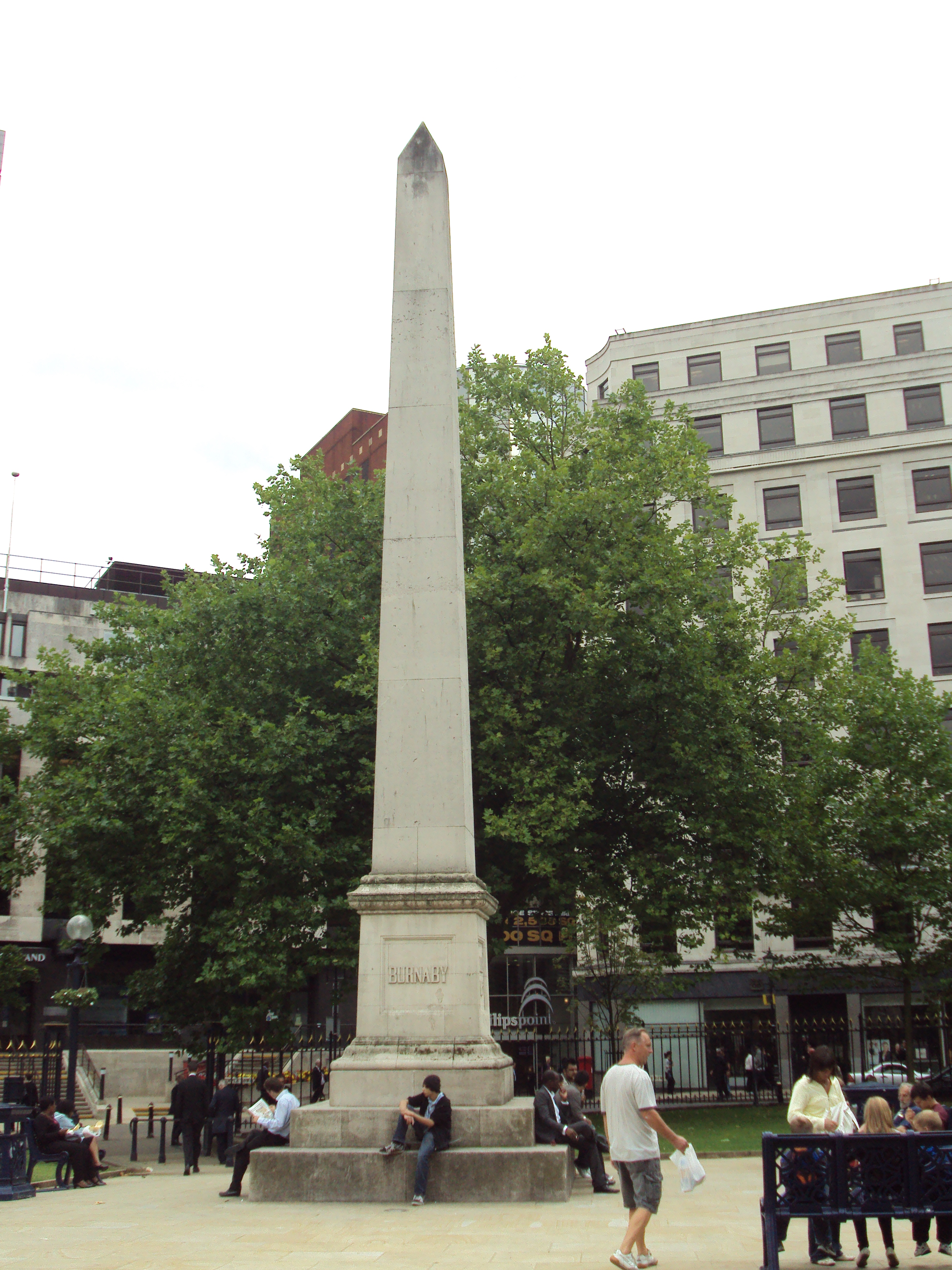 Memorial in the grounds of St Philip's Cathedral, Birmingham, England.